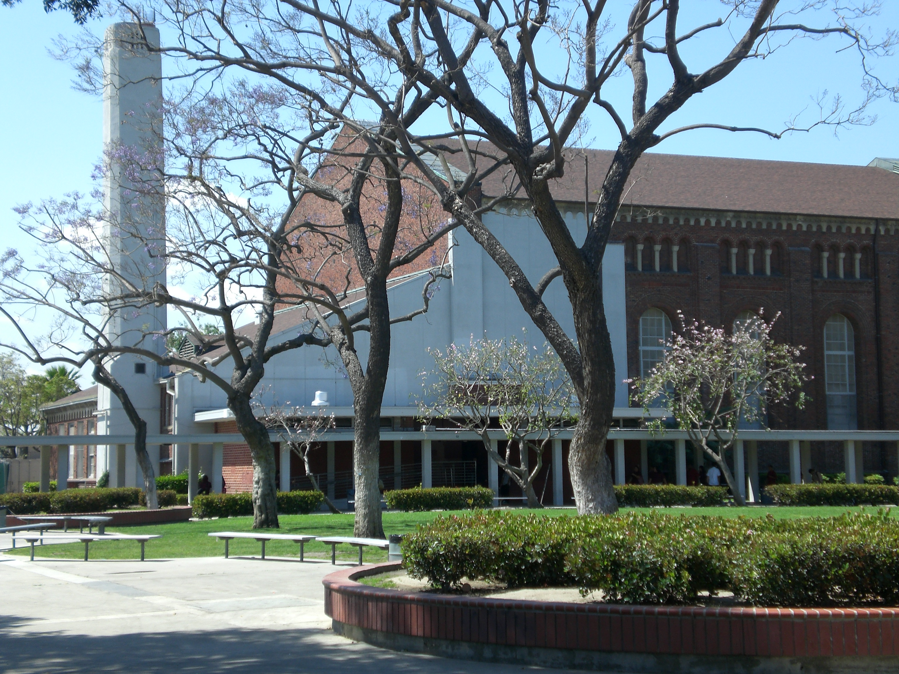 John C. Fremont High School Author: Eric323 I, the creator of this image, hereby release it to public domain. Picture taken on May 3rd, 2007. Picture taken with a Casio Exilim EX-Z75 camera.